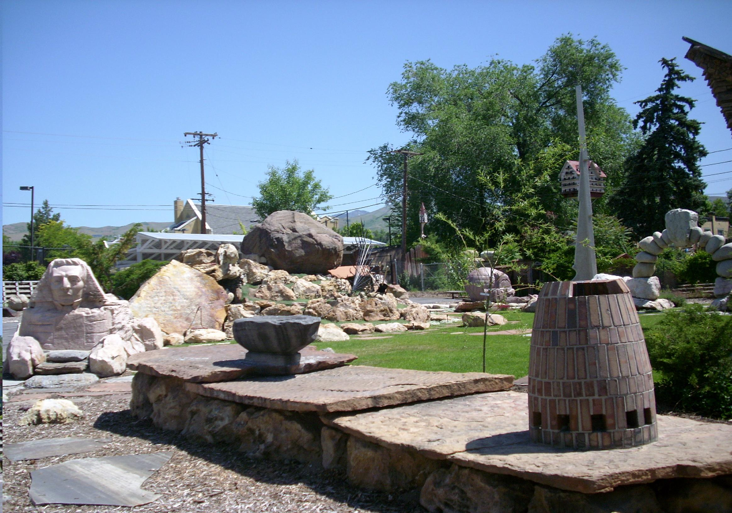 A snapshot of Gilgal Sculpture Garden